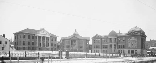 The campus of the Latter-day Saints' University (currently LDS Business College), as photographed in 1905. The campus stood on the block directly north of Temple Square in Salt Lake City, Utah.